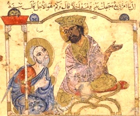 Two men talking, an image from Kalila wa Dimna.